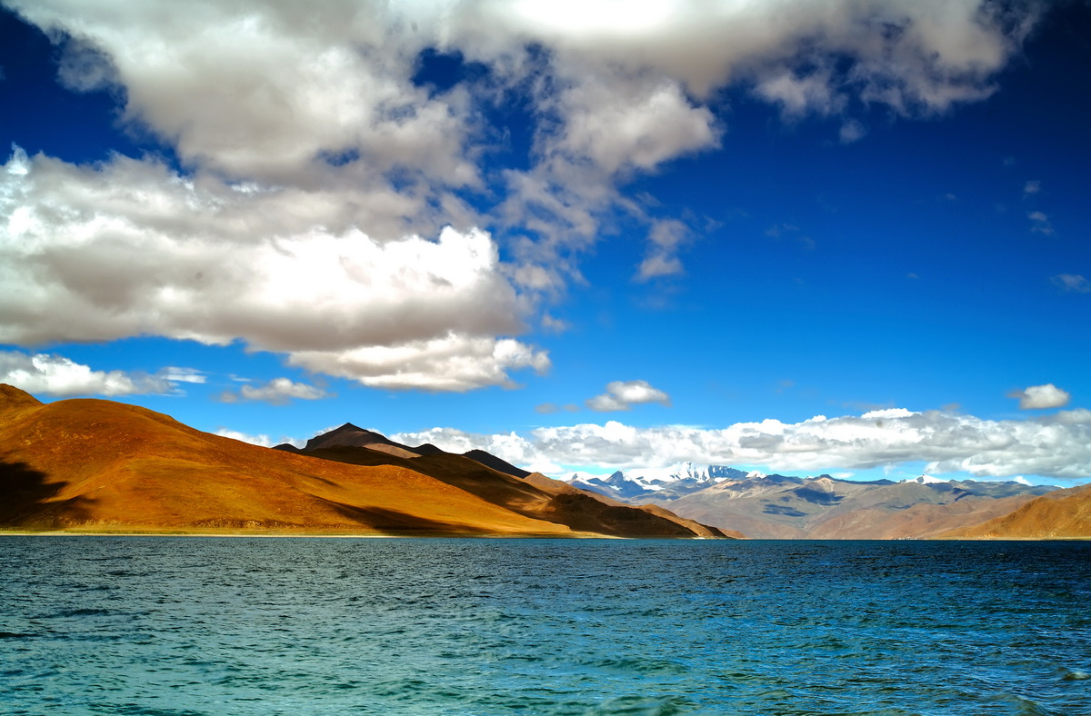 Lake Namtso, July 2010